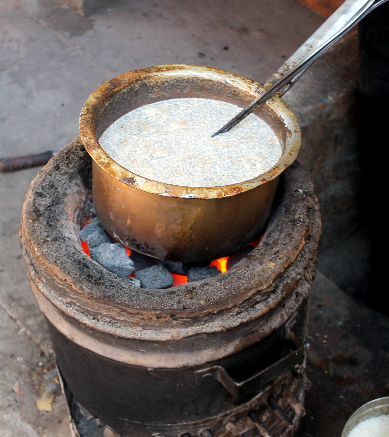 Chai being prepared over coal fire